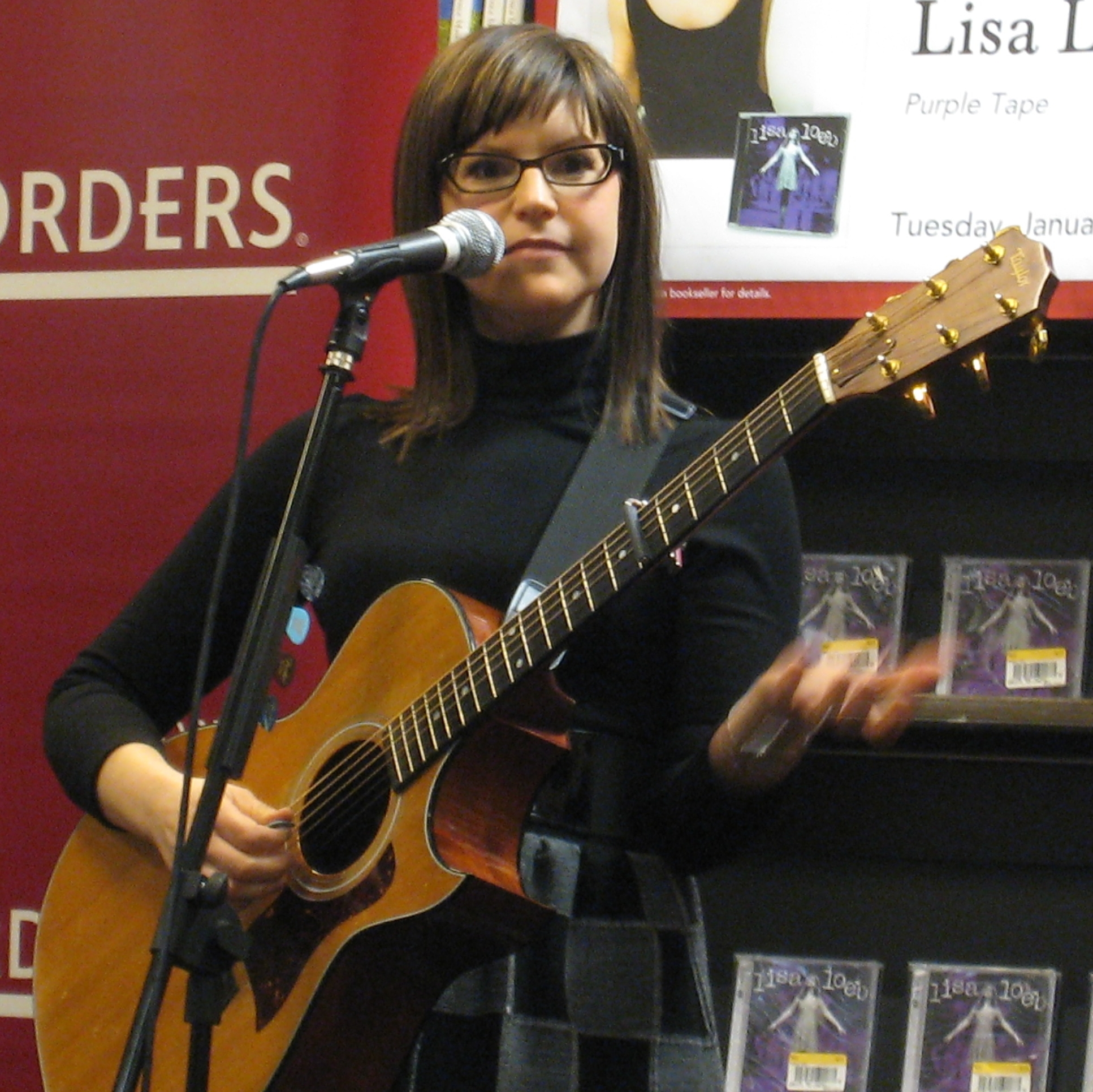 American singer Lisa Loeb at a Borders store performance